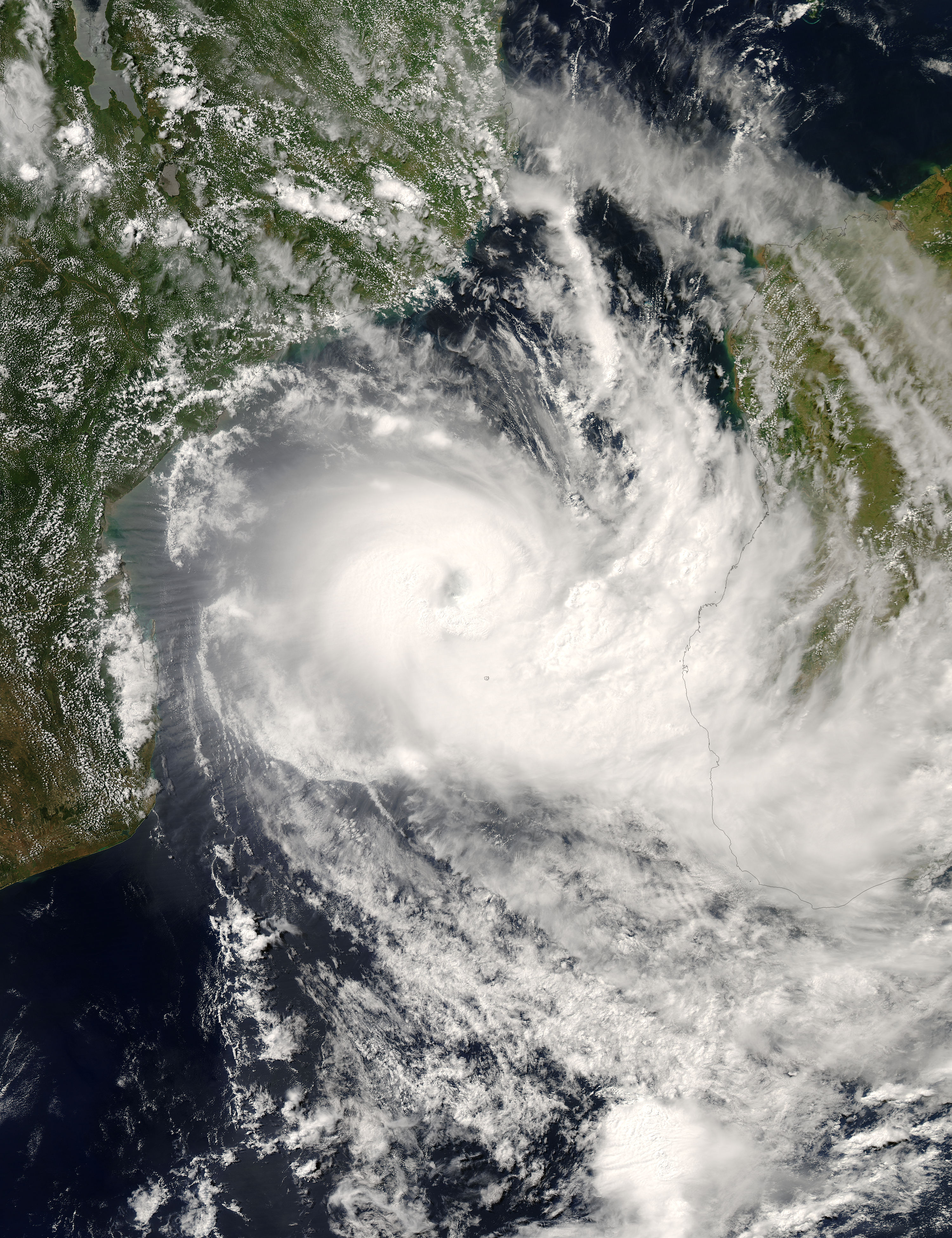 Tropical Cyclone Jokwe seen from Aqua satellite at 1115Z Mar 10, 2008